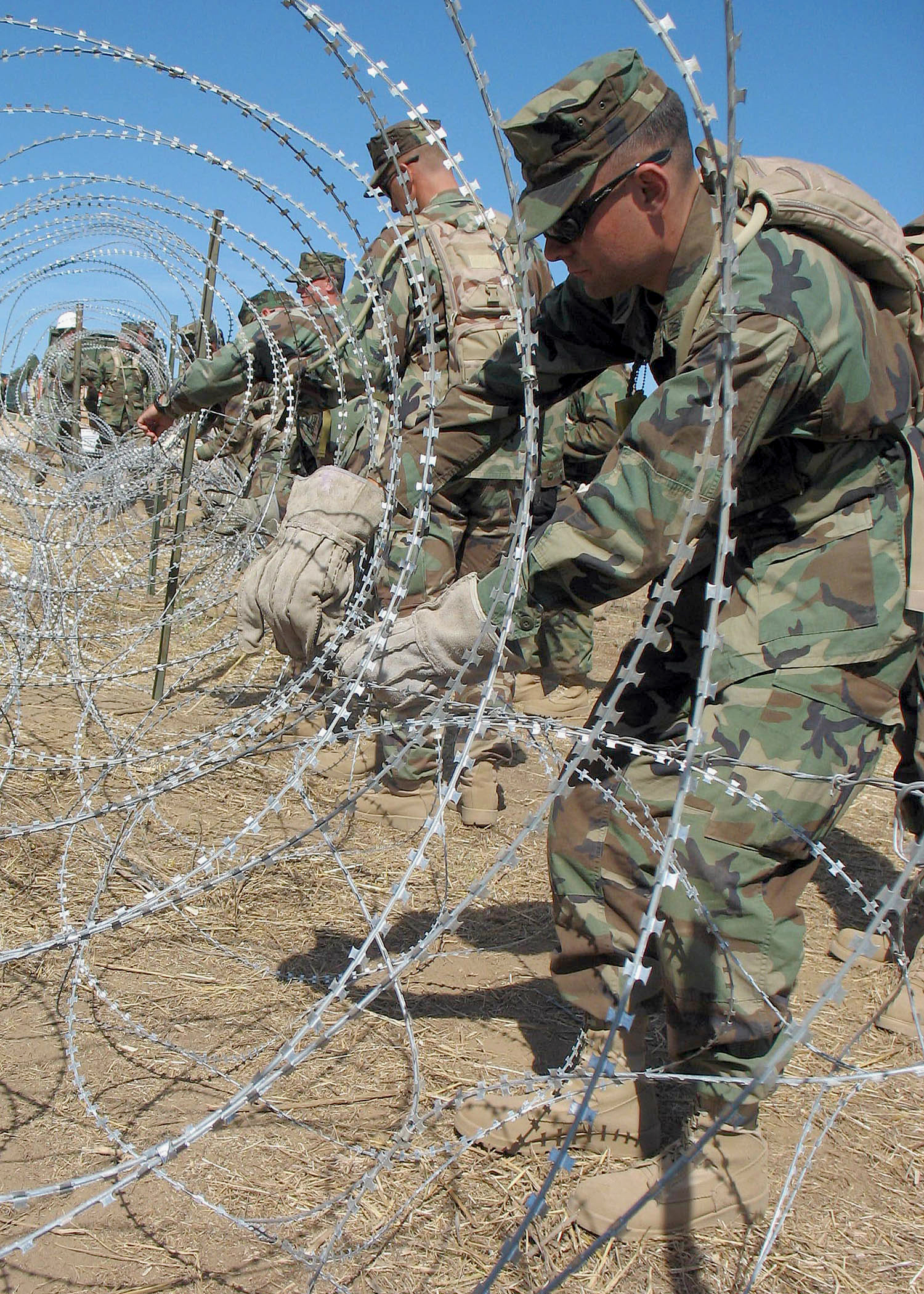 CAMP PENDLETON, Calif. (Oct. 14, 2008) Chiefs and officers assigned to Naval Mobile Construction Battalion (NMCB) 5 practice setting up a triple-strand concertina wire fence during the NMCB-5 annual khaki field exercise. The exercise is held to train chiefs and officers how to lead contingency operations in a field environment. (U.S. Navy photo by Chief Mass Communication Specialist Palmer Pinckney II/Released)